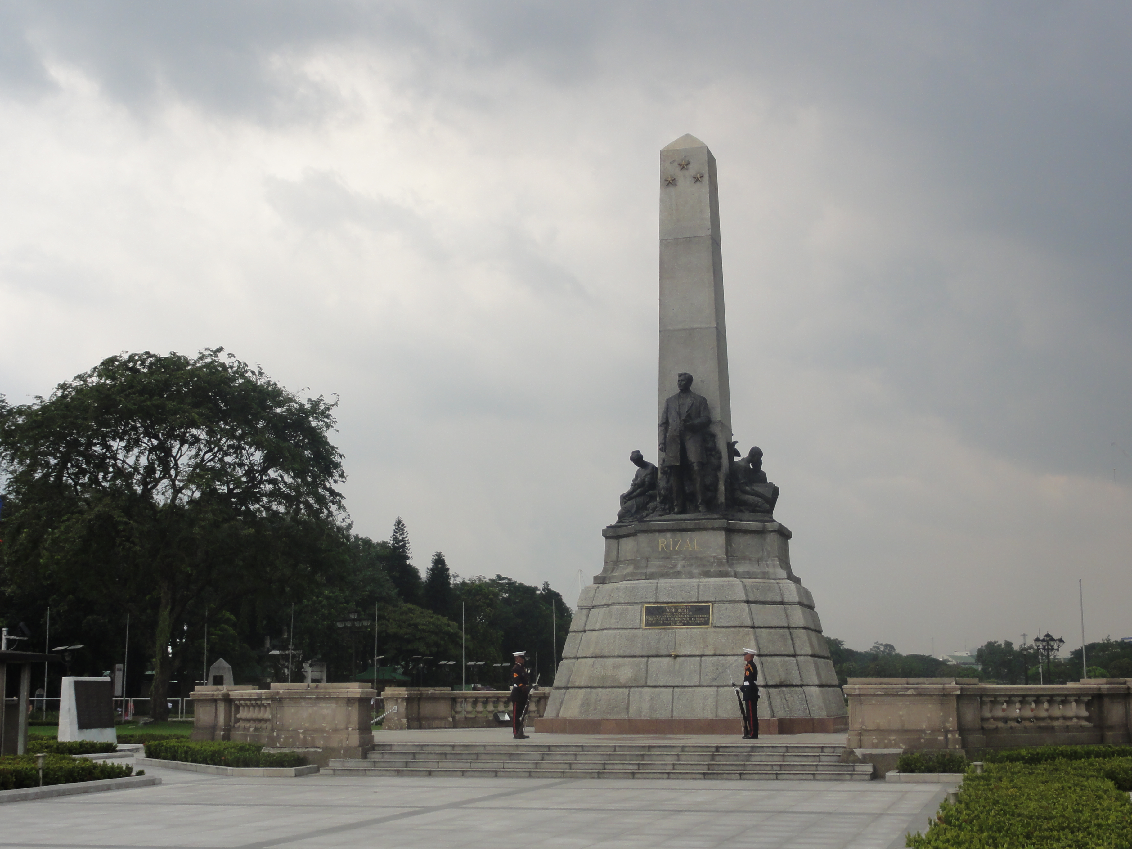 Side view of Rizal Monument in at the Rizal Park, Ermita, Manila during a cloudy day as of October 2014.